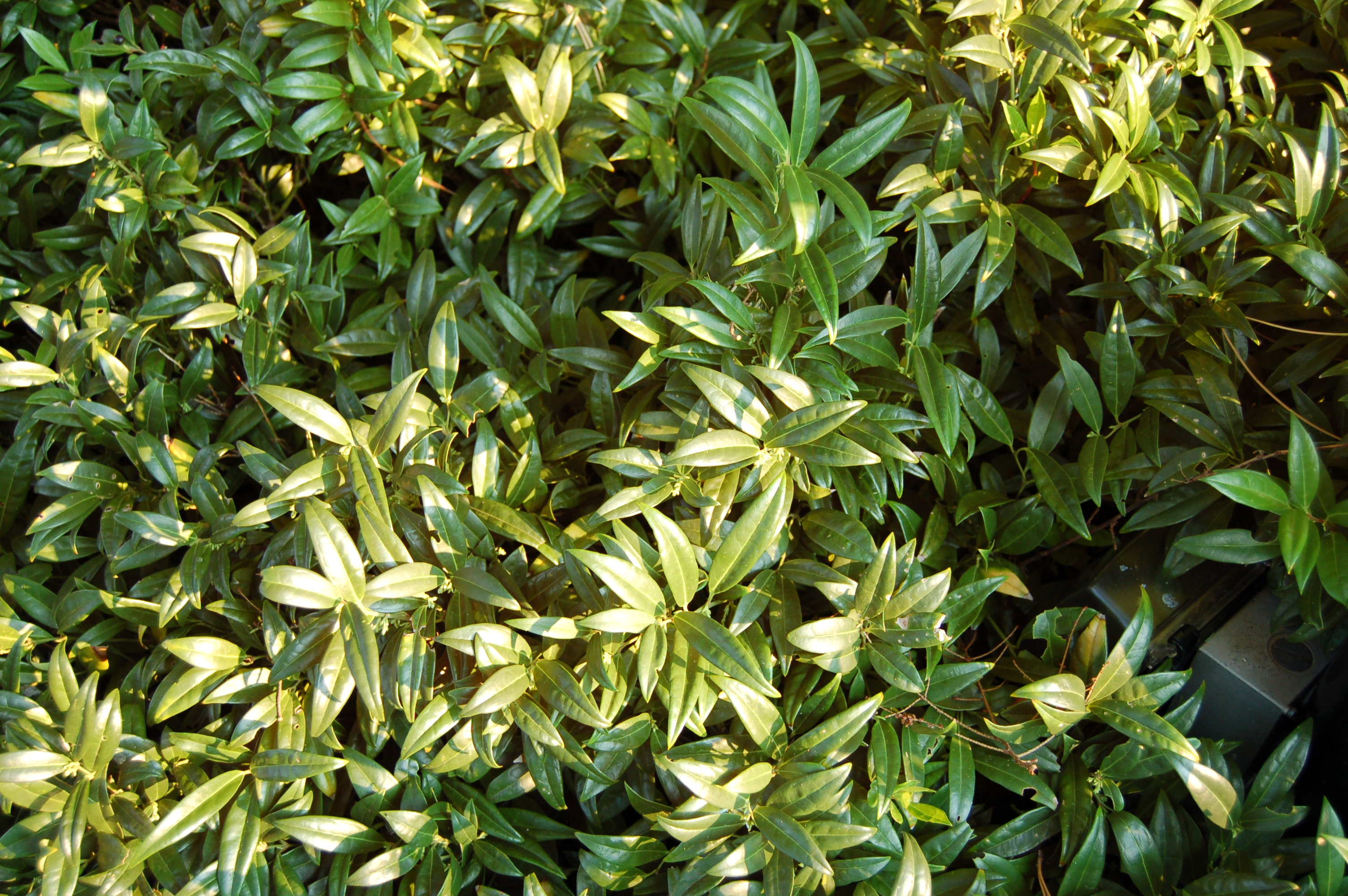 Photograph of Sweetbox (Sarcocca hookeriana) plant. Photo taken at the Tyler Arboretum where it was identified.